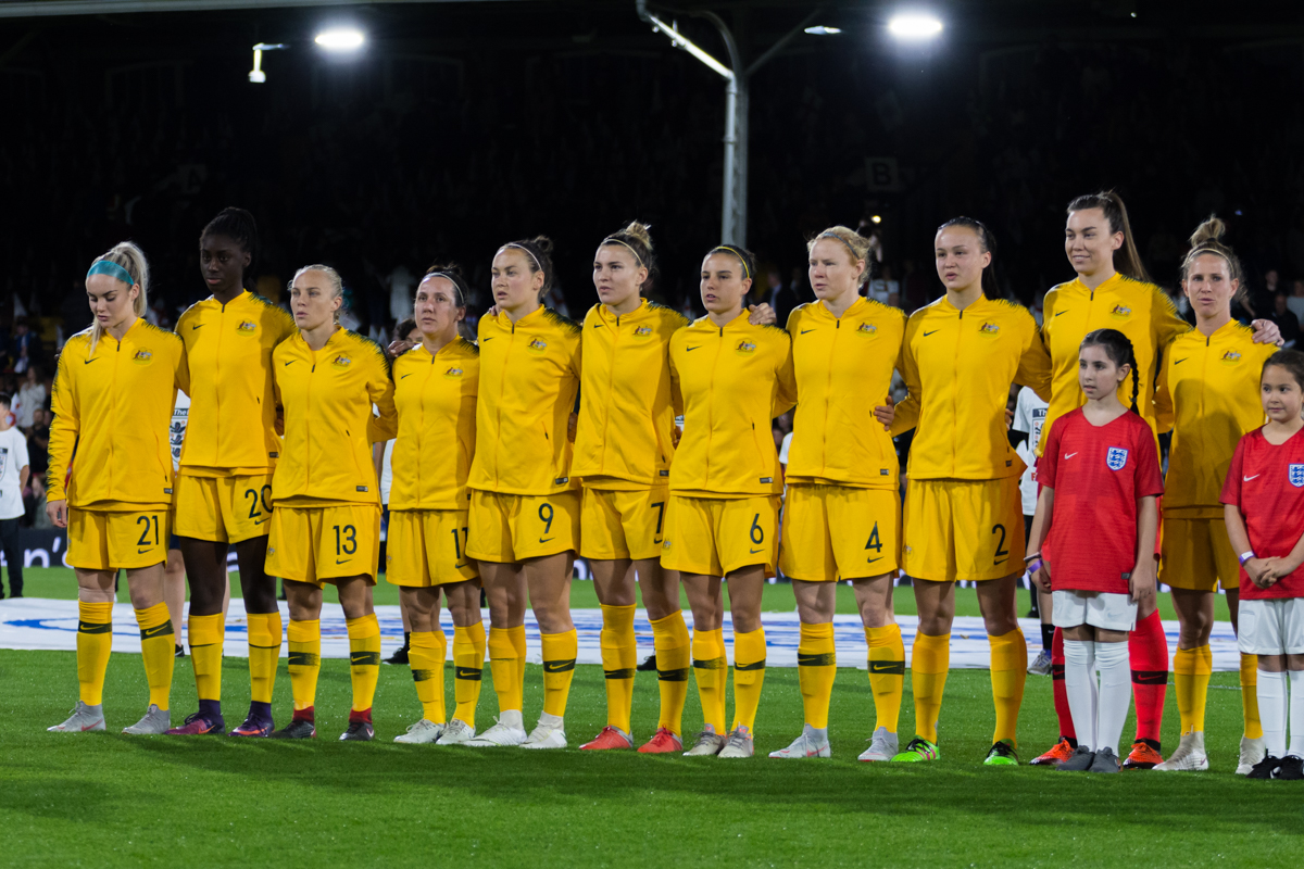 Australia before the match vs England, 9 October 2018